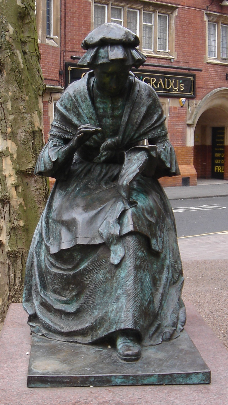 The Leicester Seamstress by James Walter Butler (1931-), 1990, bronze, life-size, Leicester. View from the front.